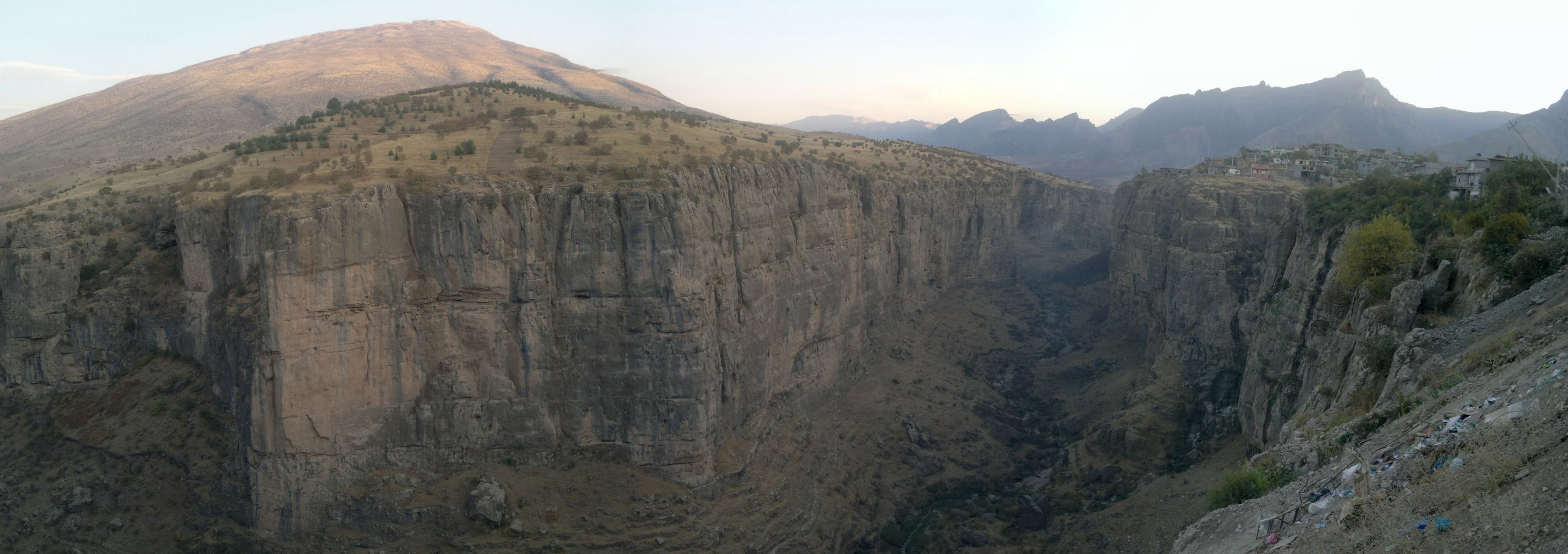 Panorama Photo of the Rawanduz Valley. Kurdî: وێنەی پانۆرامیی دۆڵی ڕەواندوز